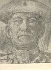 modified wikipedia pic.